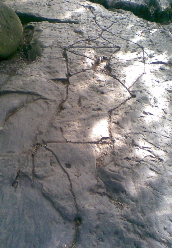 Rock cannon at Betws-y-Coed, Wales.